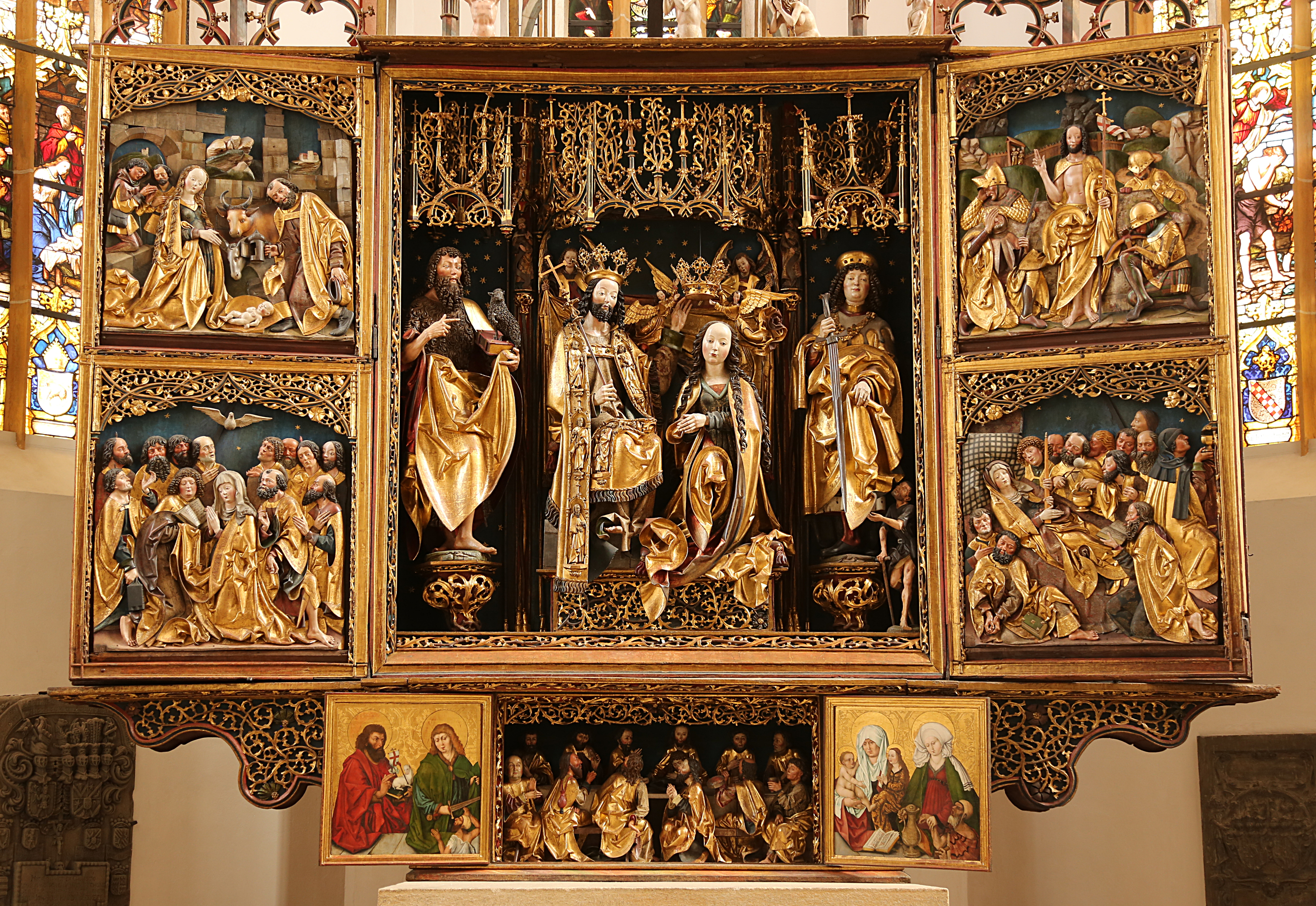 The main altar at the church St. Johannes und St. Martin in Schwabach